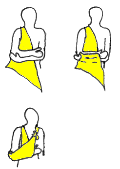 Straight sling.